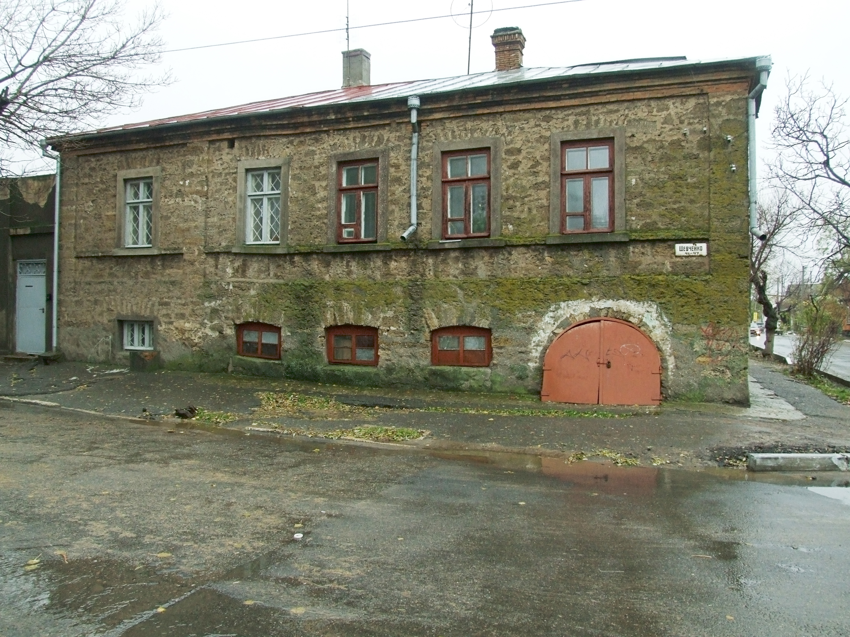 An old house in center of city of Bilhorod-Dnistrovskyi, Odessa Oblast, Ukraine